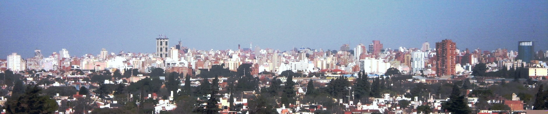 The central part of Córdoba, Argentina (from the Río Suquía)